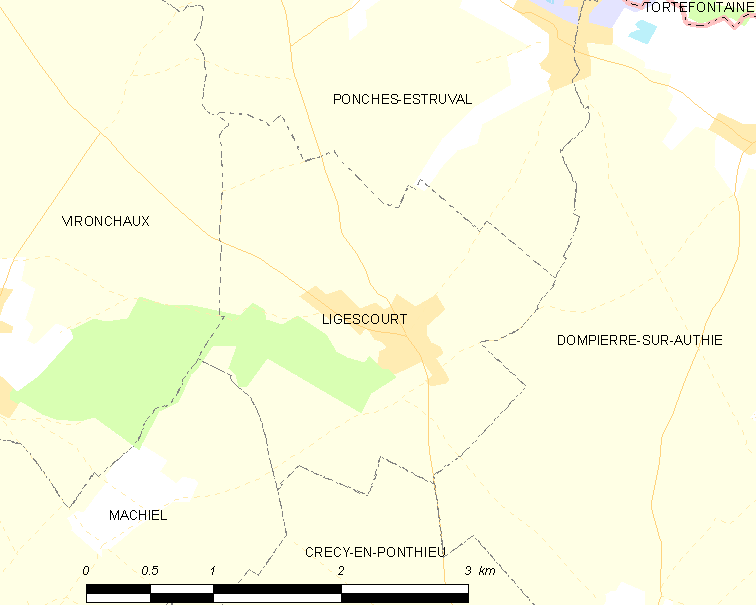 Map of French municipality Ligescourt